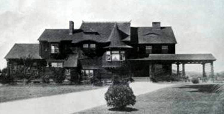 Jason Evans Residence, built by Joseph Blick, Pasadena, California.